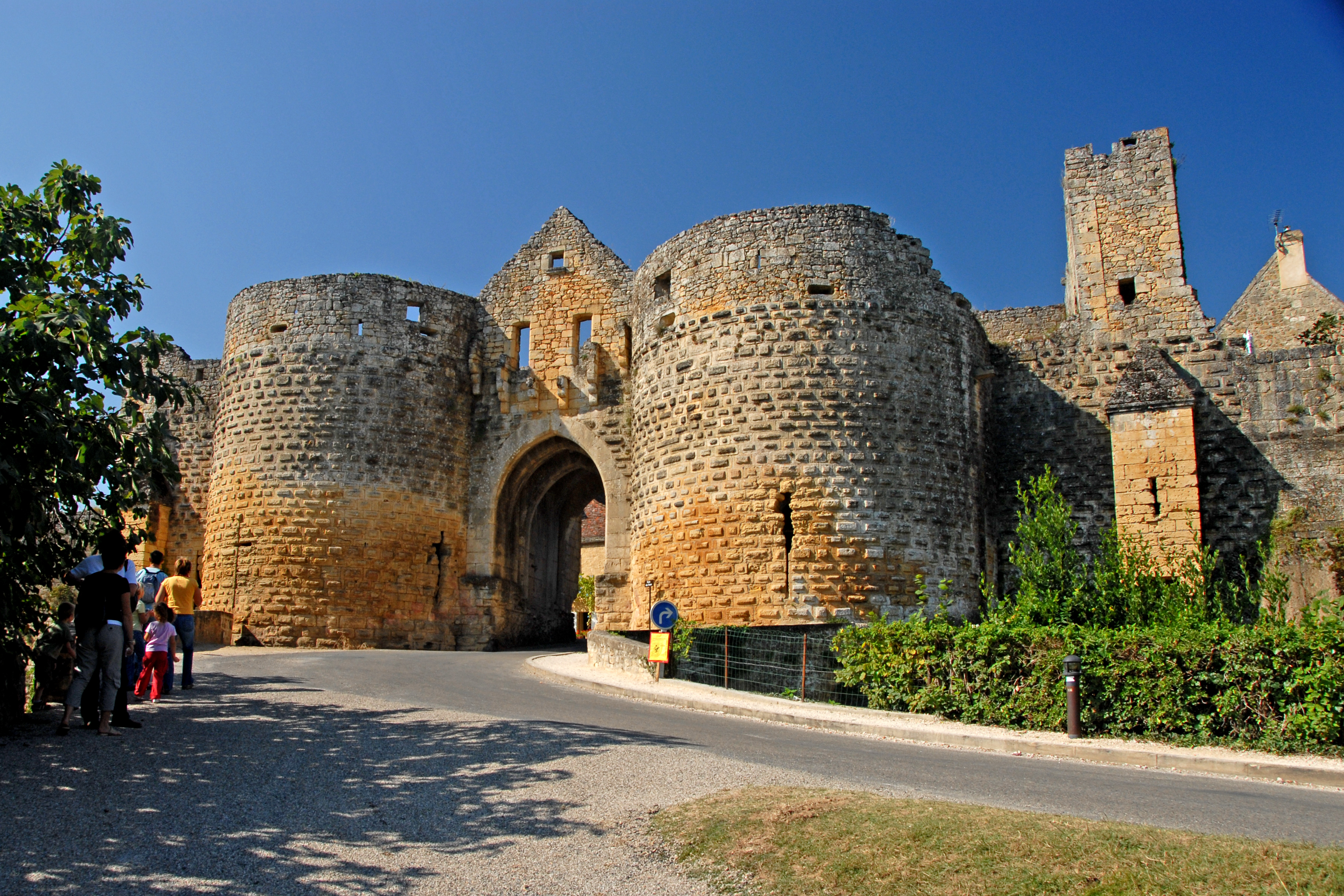 Domme, outside view of Port des Tours